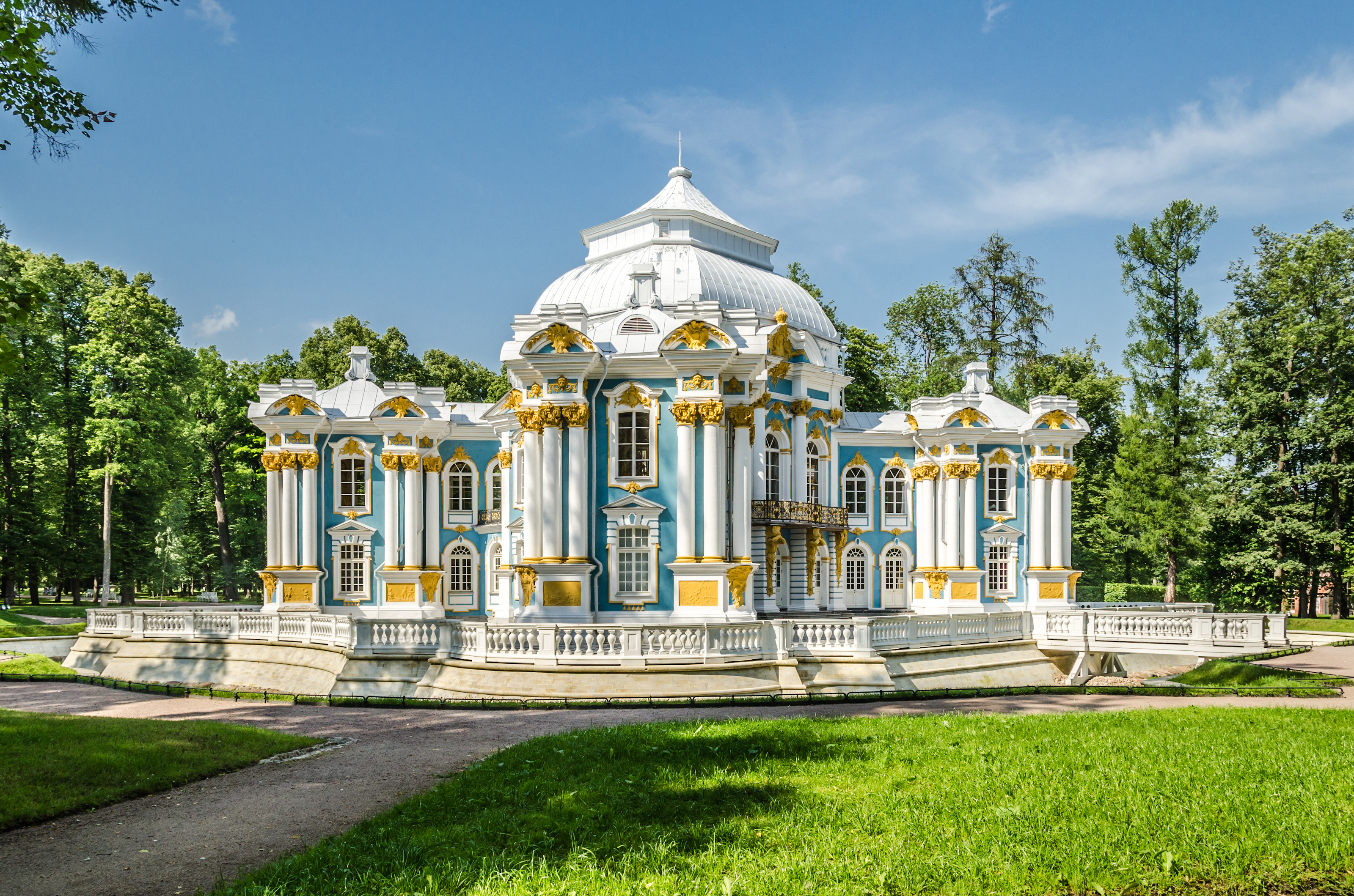 Hermitage pavilion in Tsarskoe Selo, Saint Petersburg